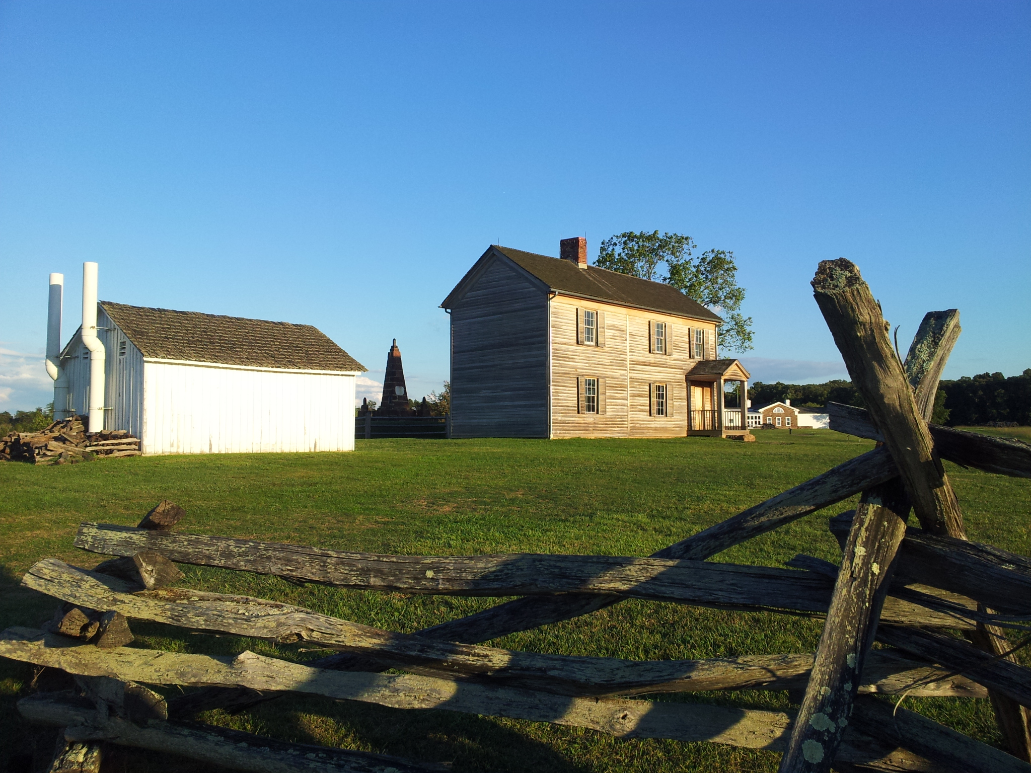 Manassas National Battlefield Park